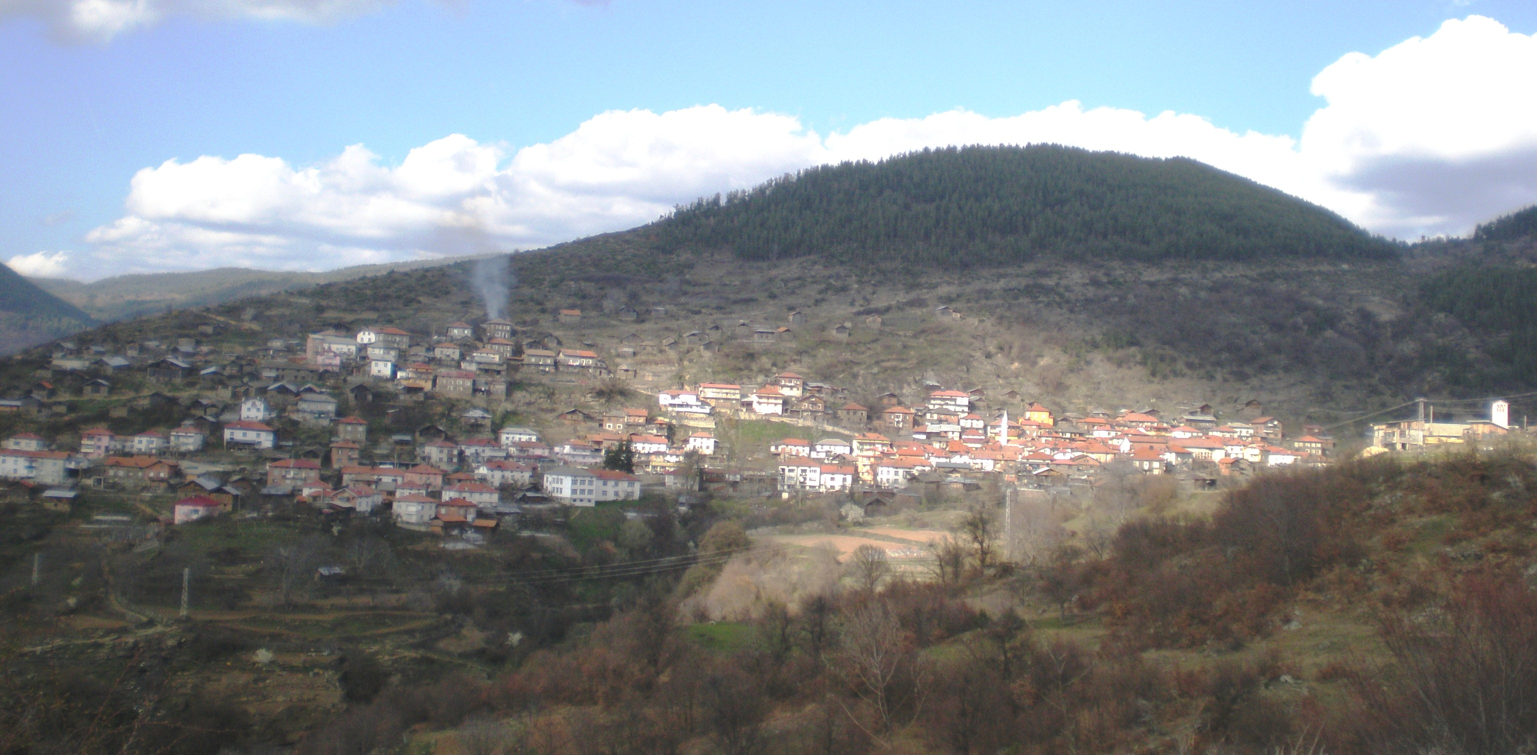 Gorno Dryanovo village, Bulgaria